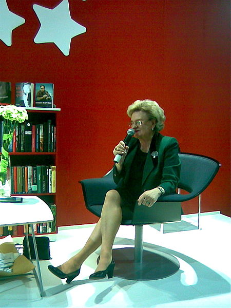 Laula Hirvisaari at Helsinki Book Fair 2009